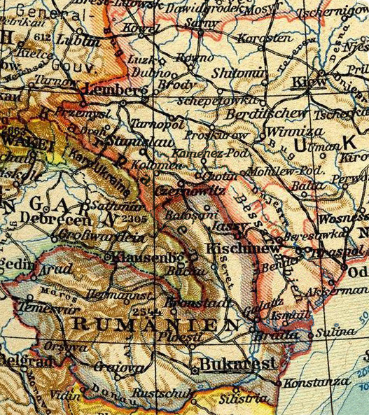 Romania and Moldavian SSR 1940, July (german school map of 1940, november, part of a map printed by the O.K.H.)